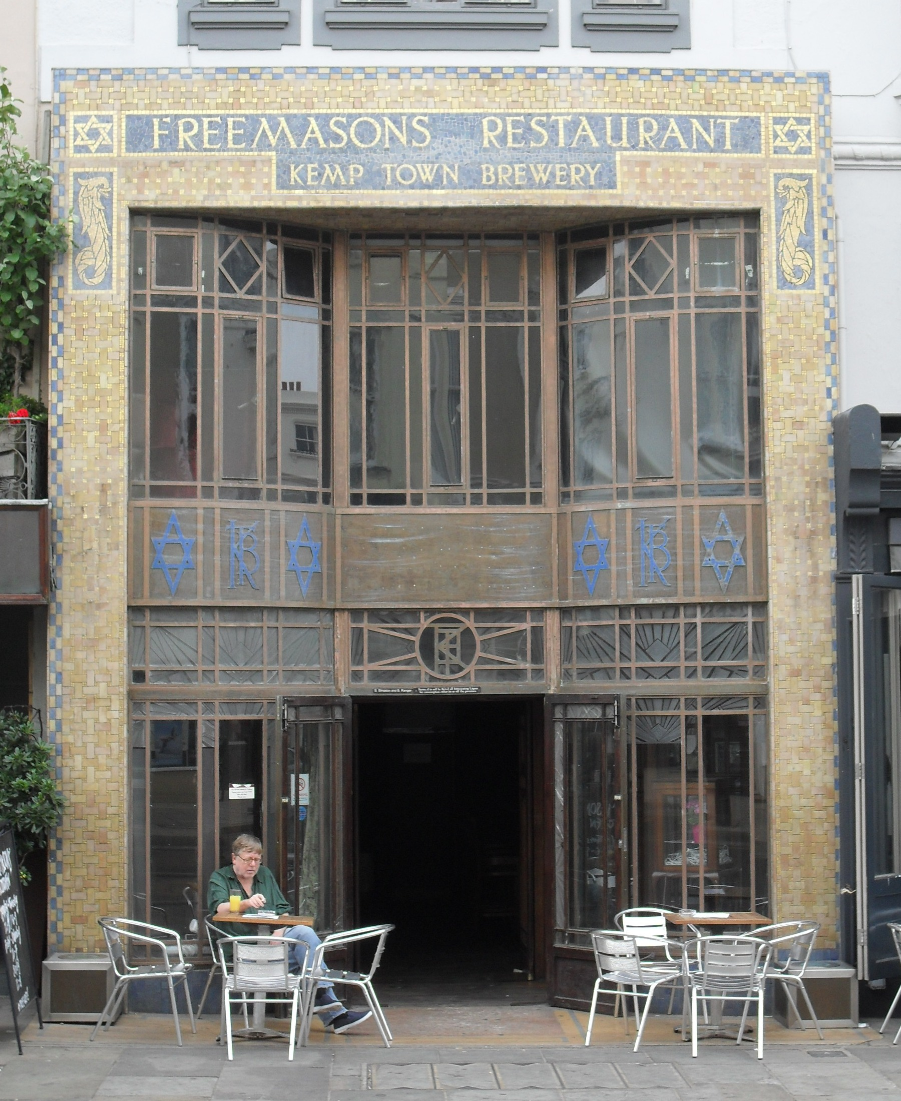 Freemasons Inn and Restaurant, 39 Western Road, Brunswick Town, Hove, City of Brighton and Hove, East Sussex: restaurant façade. The inn was built in about 1850; an elaborately decorated Art Deco-style restaurant was added in 1928. Listed at Grade II by English Heritage (IoE Code 365664)